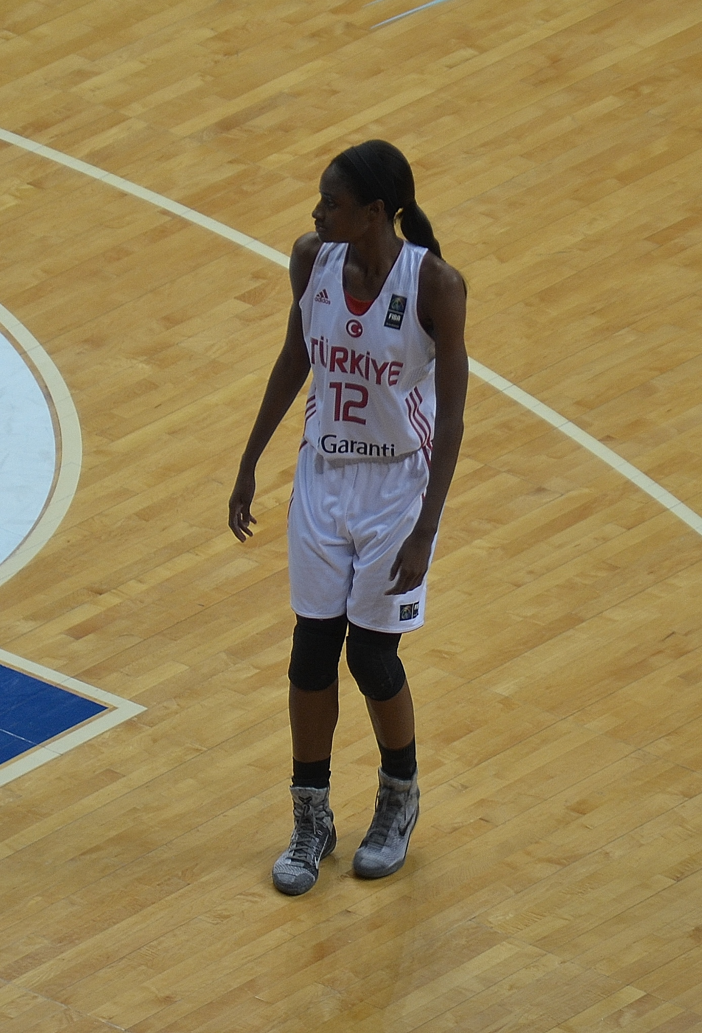 Lara Sanders for Turkey at the 2014 FIBA WC for Women